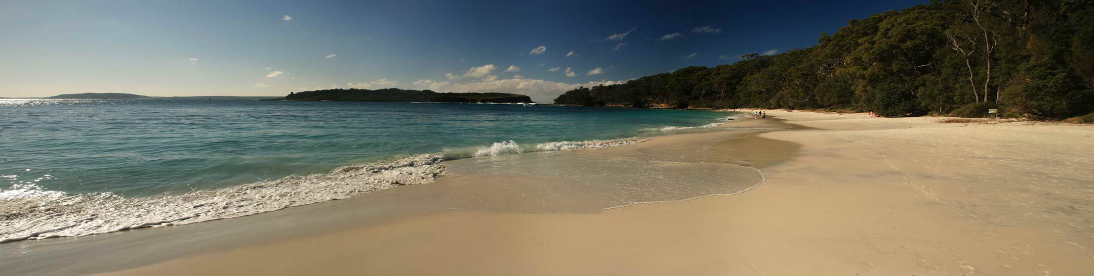 Murrays Beach, Jervis Bay Territory